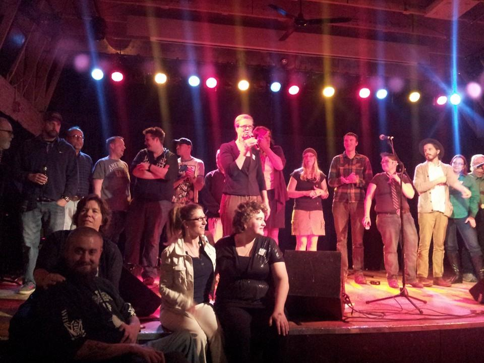 A bail benefit held at the Visual Arts Collective for those arrested (only some of whom are here on stage) during the Add The Four Words Idaho campaign; some $4,000 was raised.